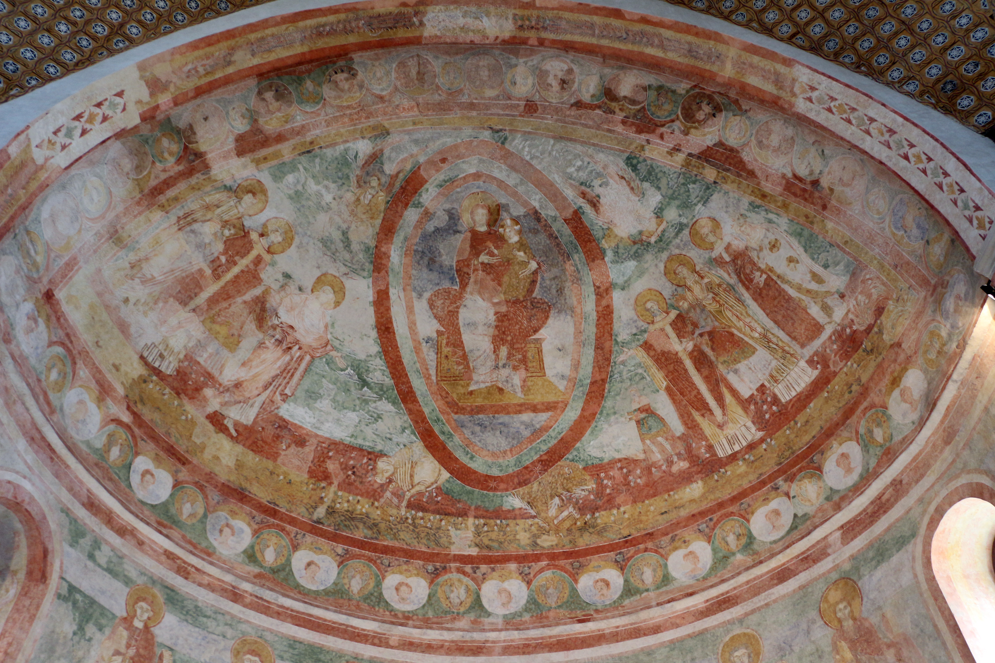 Basilica Patriarcale (Aquileia)